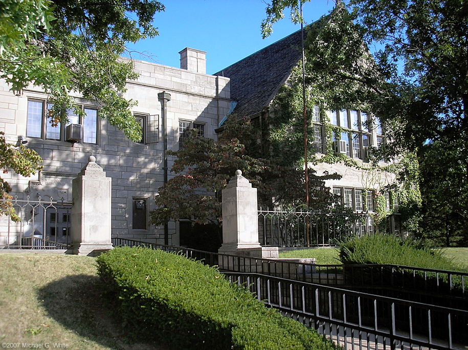 The Falk Laboratory School at the University of Pittsburgh. photo by Michael G White